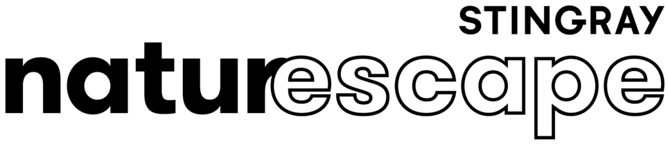 Stingray Naturescape logo.